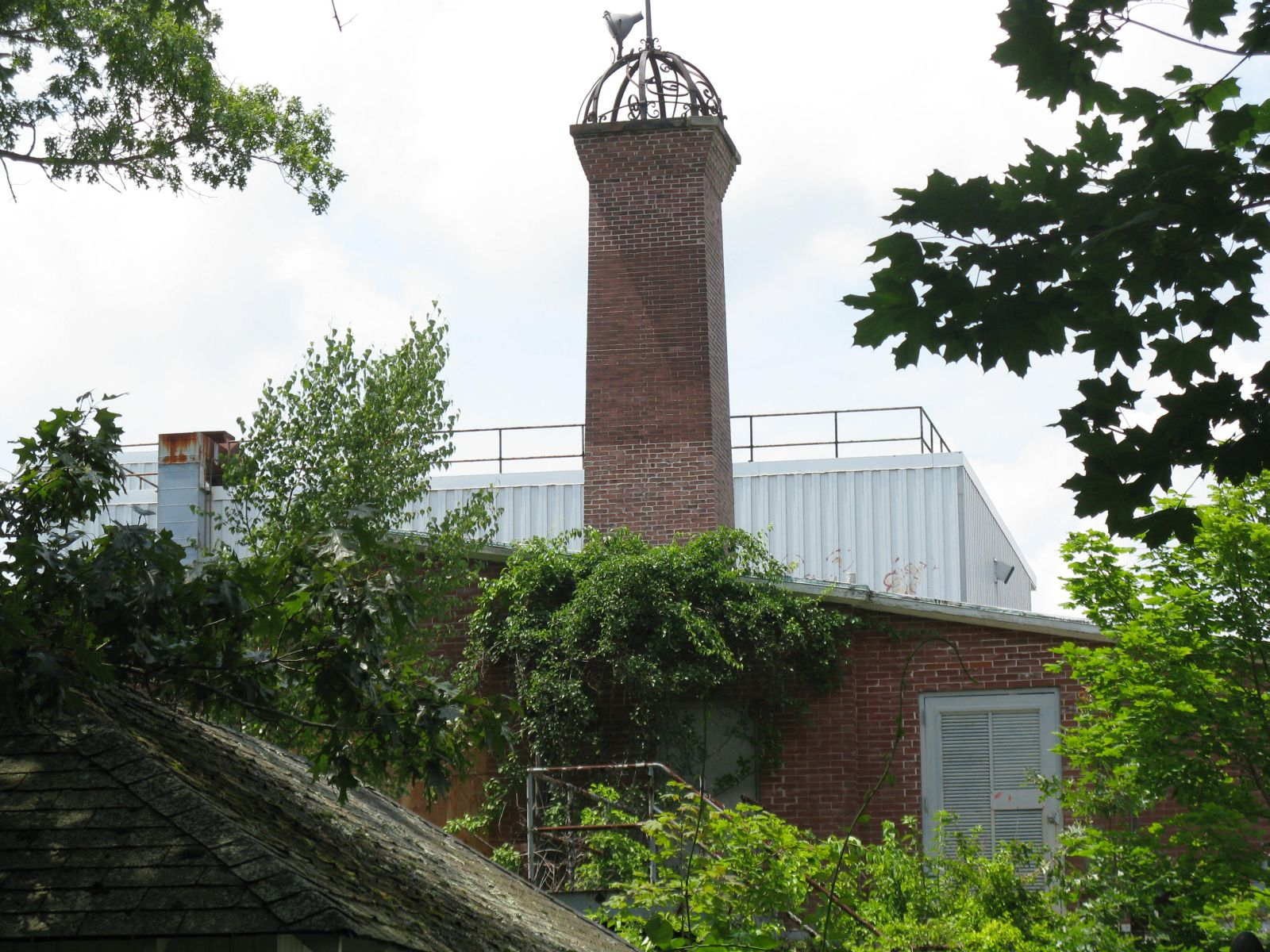 Ruins of Wardenclyffe Tower Administration Building in Shoreham, New York